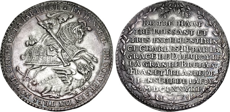 GERMANY, Sachsen-Albertinische Linie. Johann Georg II. Elector, 1656-1680. AR Taler (49mm, 23.32 g, 11h). On his election to the Order of the Garter. Dresden mint. Dated 1678. EN HONNEUR DU SOUVERAIN DU TRES NOBLL ORDRE DE LA IARTIERE • *, St. George, armored, on horseback right, piercing dragon with lance / DU TRÉ HAUT/TRÉ PUISSANT ET/TRES EXCELLENT PRIN/CE CHARLES • II • PARLA/GRACE DE DIEU ROY DE/LA GRANDE BRET AG :/FRAN : ET IRLANDE DE/FENSE EURDELA FOR • M • D • C • LXXVIII • in nine lines within wreath. Clauss & Kahnt 530; Schnee 942; Davenport 7633. Near EF, lightly toned.